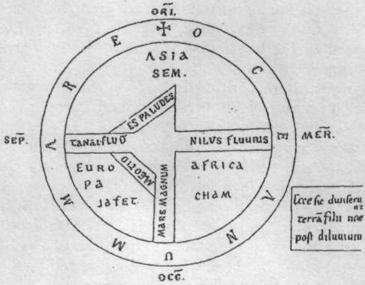 Ecce sic diviserunt terram filii noe post diluvium (Lo thus did the sons of Noah divide the world after the Flood); Tanai. Fluv. (River Don); Nilus Fluv. (River Nile); Meotides Paludes (Sea of Azov)